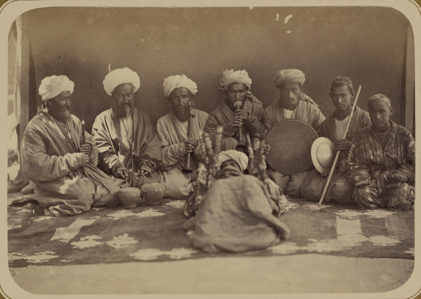 This photograph is from the ethnographical part of Turkestan Album, a comprehensive visual survey of Central Asia undertaken after imperial Russia assumed control of the region in the 1860s. Commissioned by General Konstantin Petrovich von Kaufman (1818–82), the first governor-general of Russian Turkestan, the album is in four parts spanning six volumes: “Archaeological Part” (two volumes); “Ethnographic Part” (two volumes); “Trades Part” (one volume); and “Historical Part” (one volume). The principal compiler was Russian Orientalist Aleksandr L. Kun, who was assisted by Nikolai V. Bogaevskii. The album contains some 1,200 photographs, along with architectural plans, watercolor drawings, and maps. The “Ethnographic Part” includes 491 individual photographs on 163 plates. The photographs show individuals representing the different peoples of the region (Plates 1–33); daily life and rituals (Plates 34–91); and views of villages and cities, street vendors, and commercial activities (Plates 92–163). Dancers; Ethnographic photographs; Group portraits; Musical instruments; Musicians; Photographic surveys; Portrait photographs; Turkic peoples